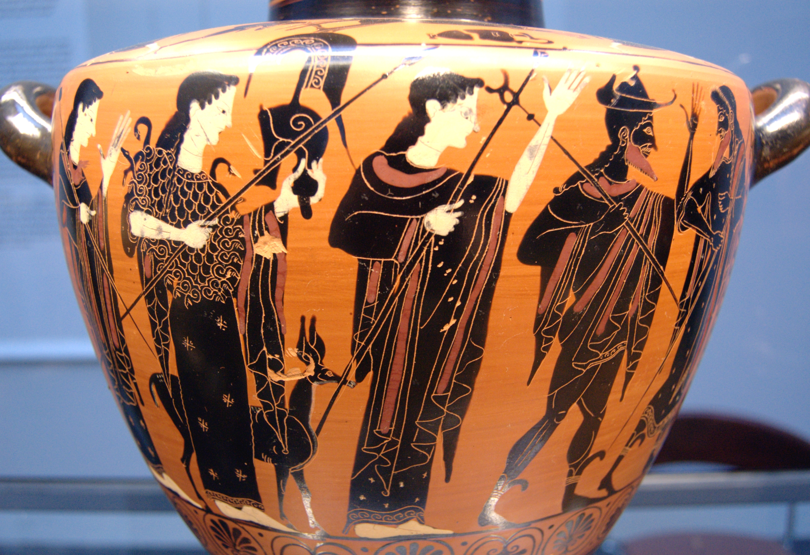 Judgement of Paris. Side A of an Attic black-figure hydria, ca. 510 BC. From Vulci.